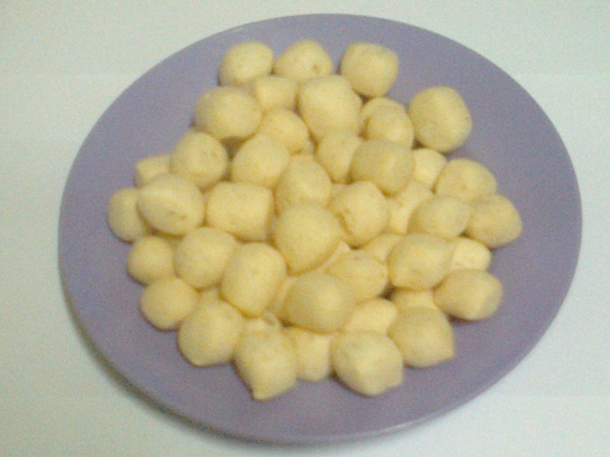 Amplang served on a plate.